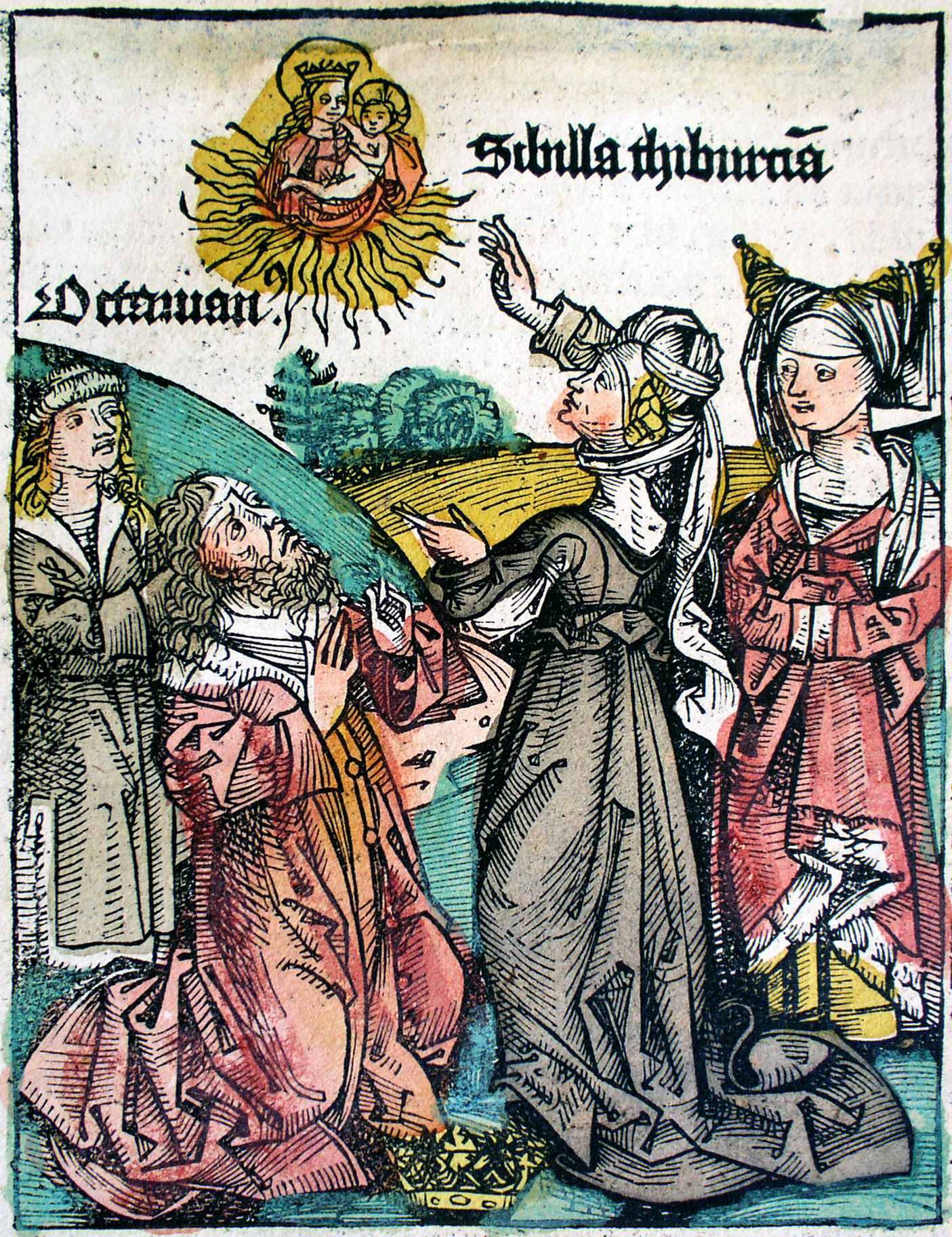 The Tiburtine Sybil, woodcut from the Nuremberg Chronicle